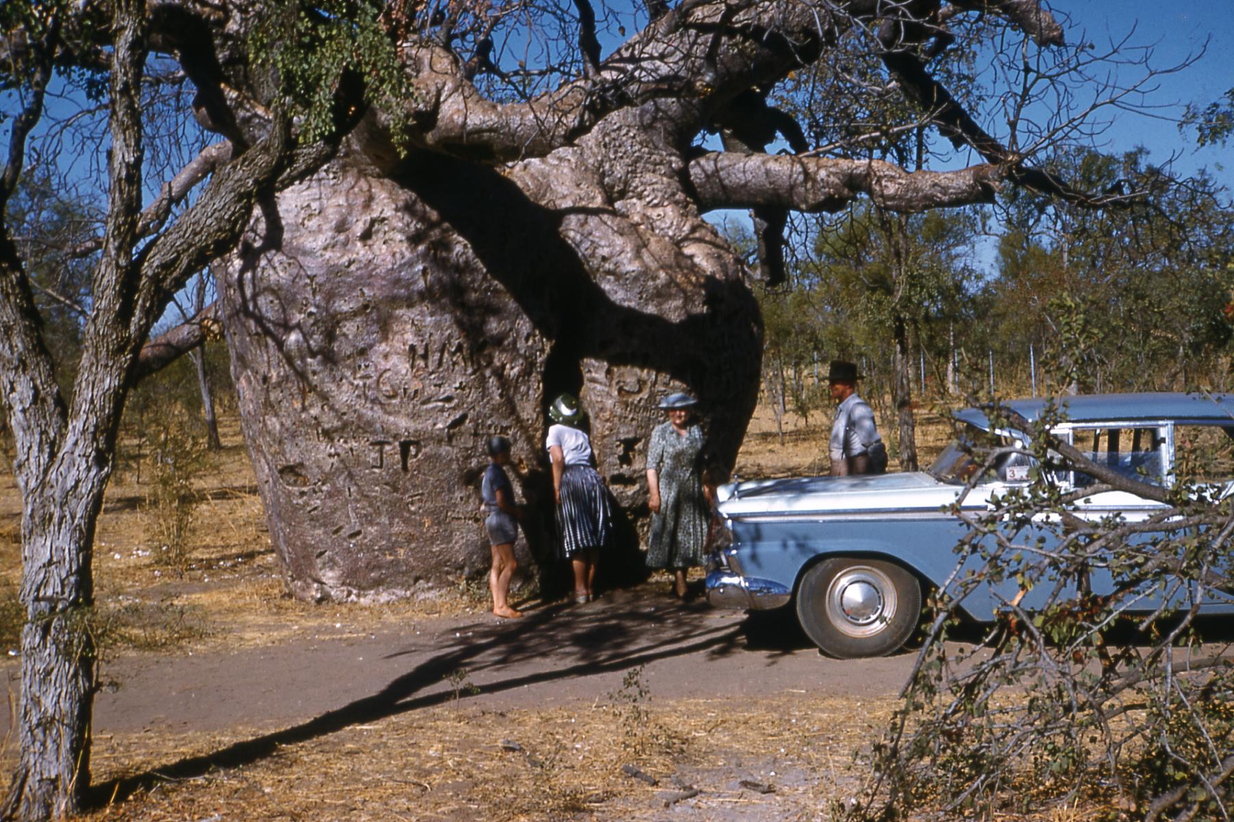 The Prison Boab Tree in 1960. Note the practise of carving graffitti into the trunk.